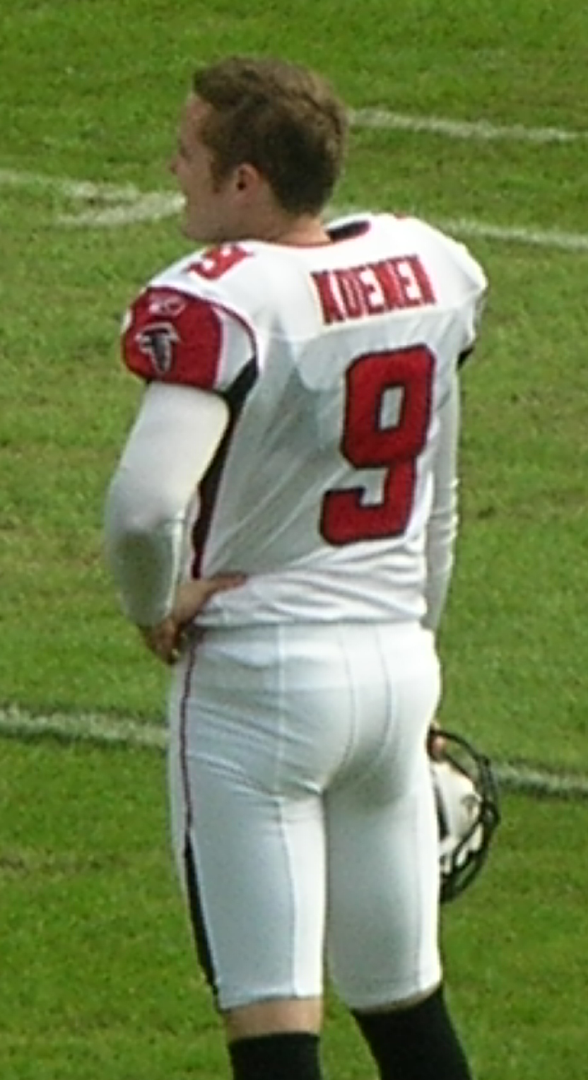 Atlanta Falcons punter Michael Koenen at a road game against the Oakland Raiders. The Falcons won 24-0.